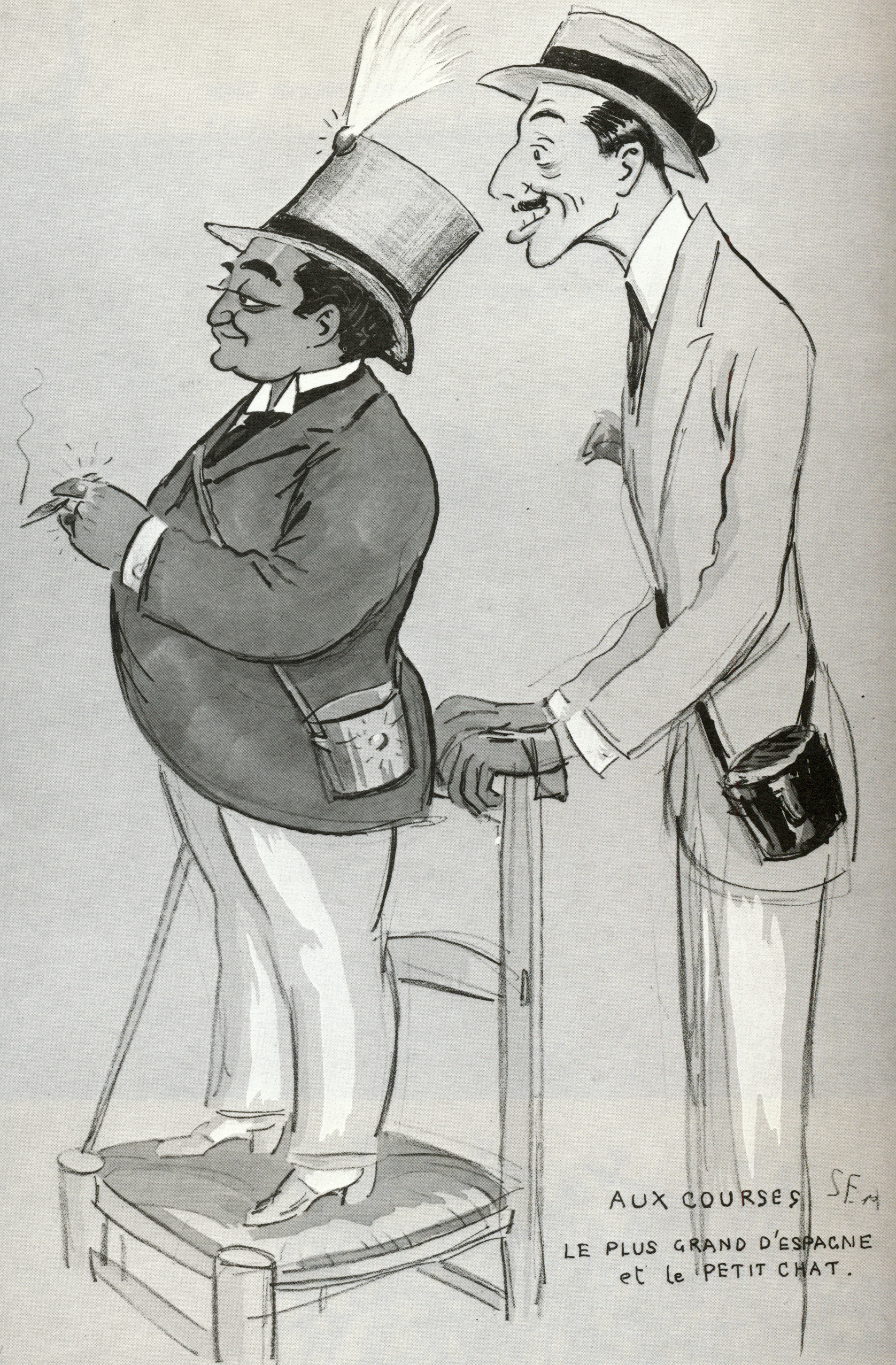 Caricature of Reza Shah (le chat) and Alphonse XIII of Spain (le plus grand d'Espagne) reproduced in SEM (1979)